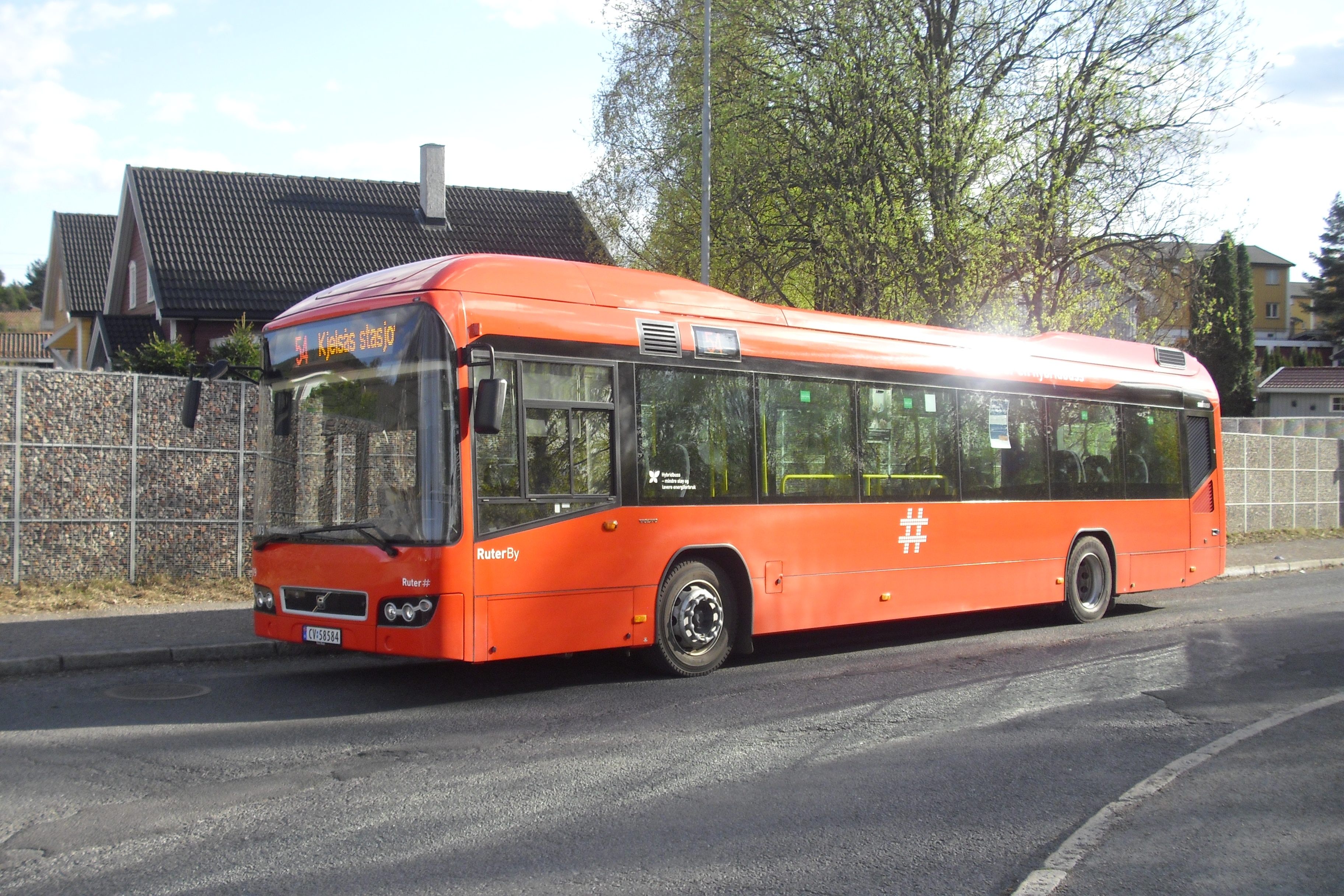 Volvo 7700 hybrid bus, Oslo, Norway, line 54. Built 2010, UniBuss Oslo operator.